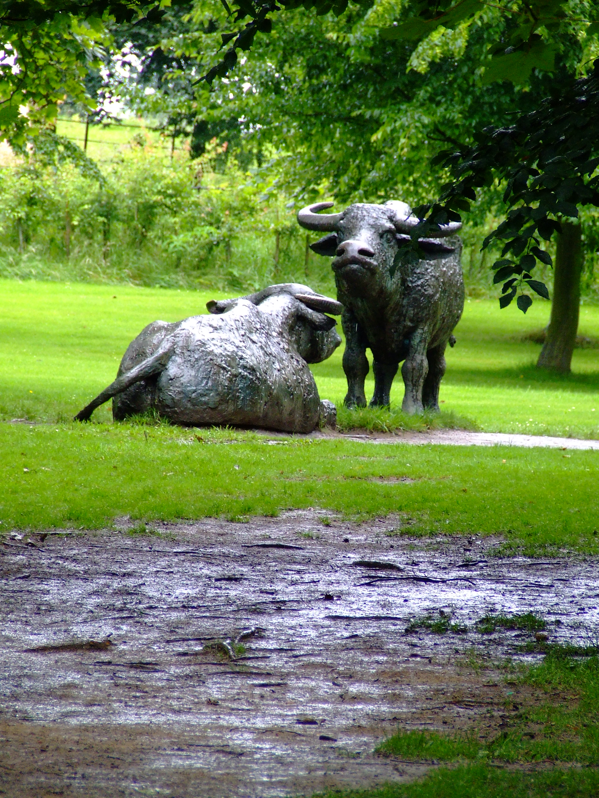 Lying and Standing (1988) by Elisabeth Frink in Yorkshire Sculpture Park/U.K.